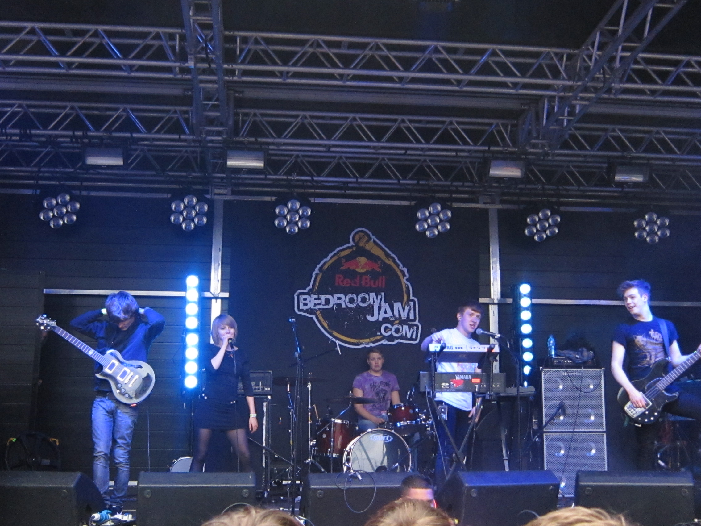 Rolo Tomassi performing live at the Candem Crawl in London, United Kingdom, 2010. (From left to right) Joe Nicholson, Eva Spence, Edward Dutton, James Spence and Joseph Thorpe.